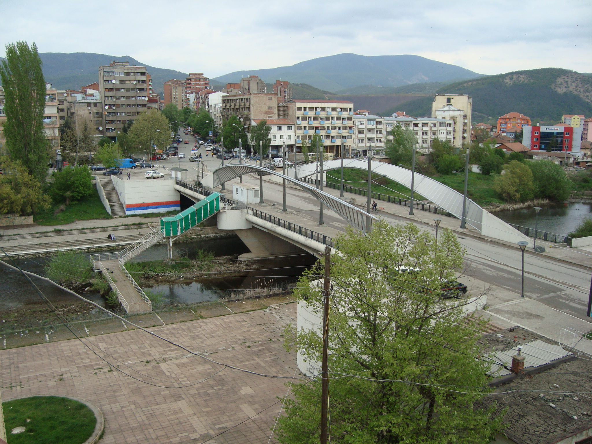 A view of the Austerlitz Bridge that separates the northern and southern parts of Mitrovica, Kosovo.